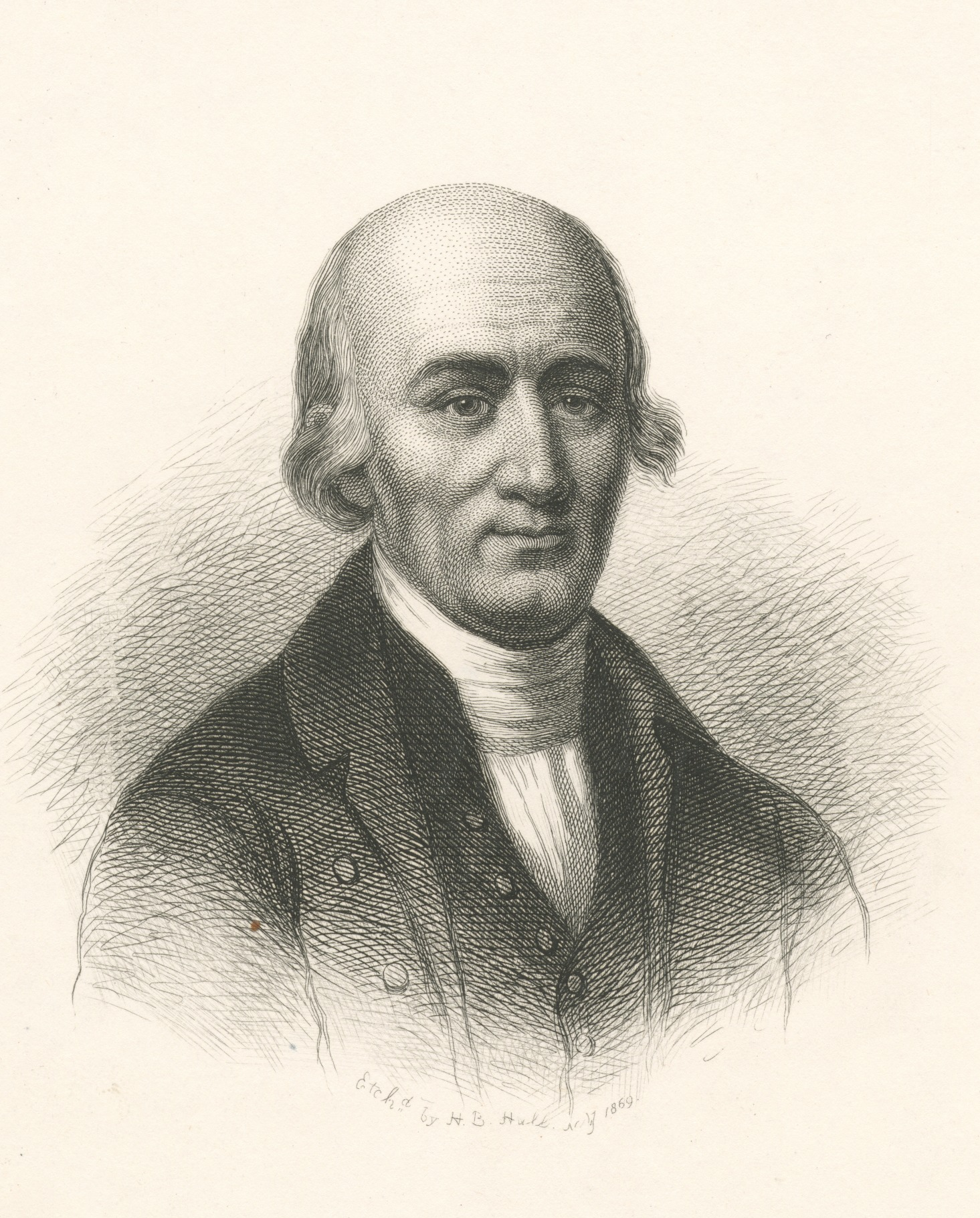 EM2775